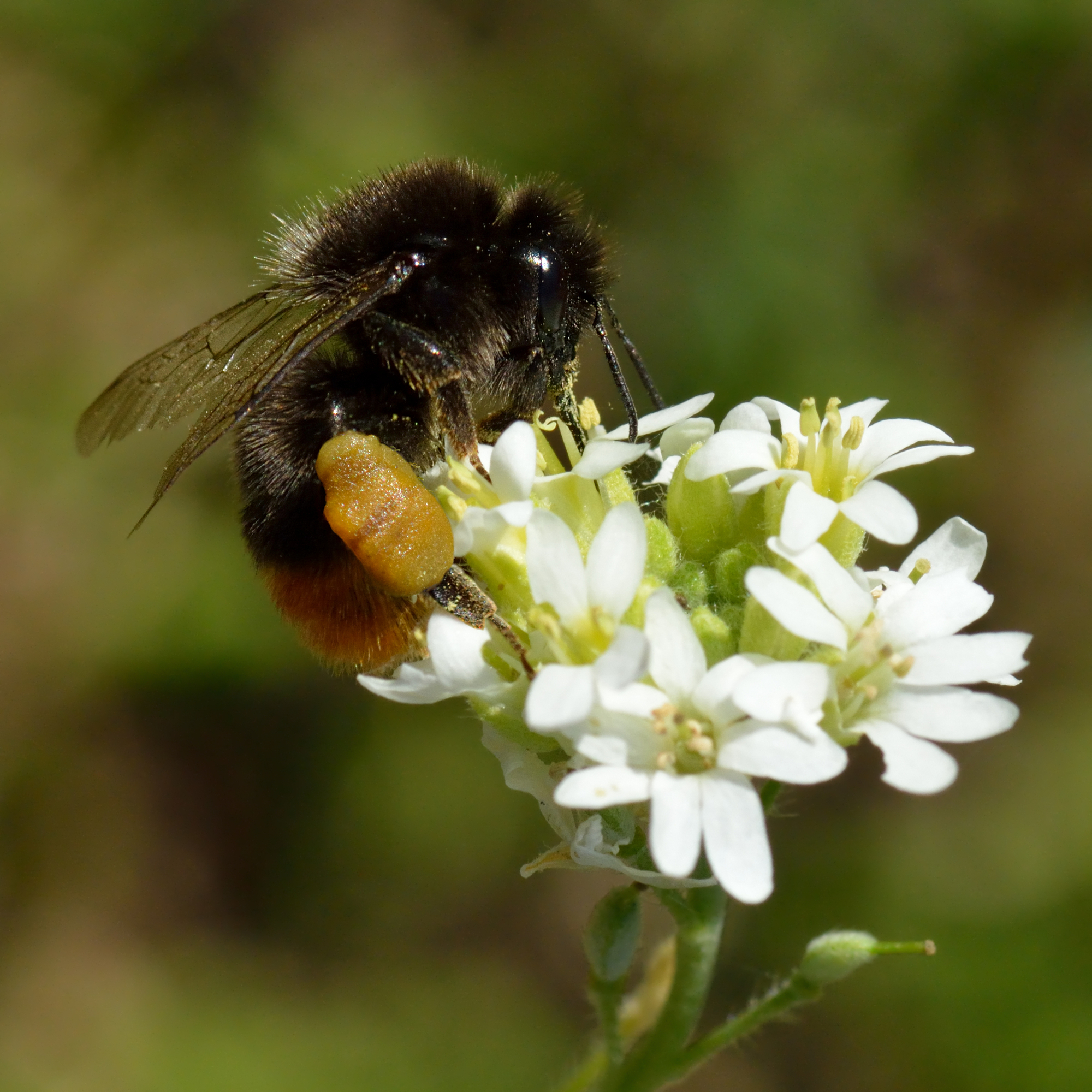 Red-tailed bumblebee (Bombus lapidarius) on the hoary alyssum (Berteroa incana). Tallinn, Estonia.